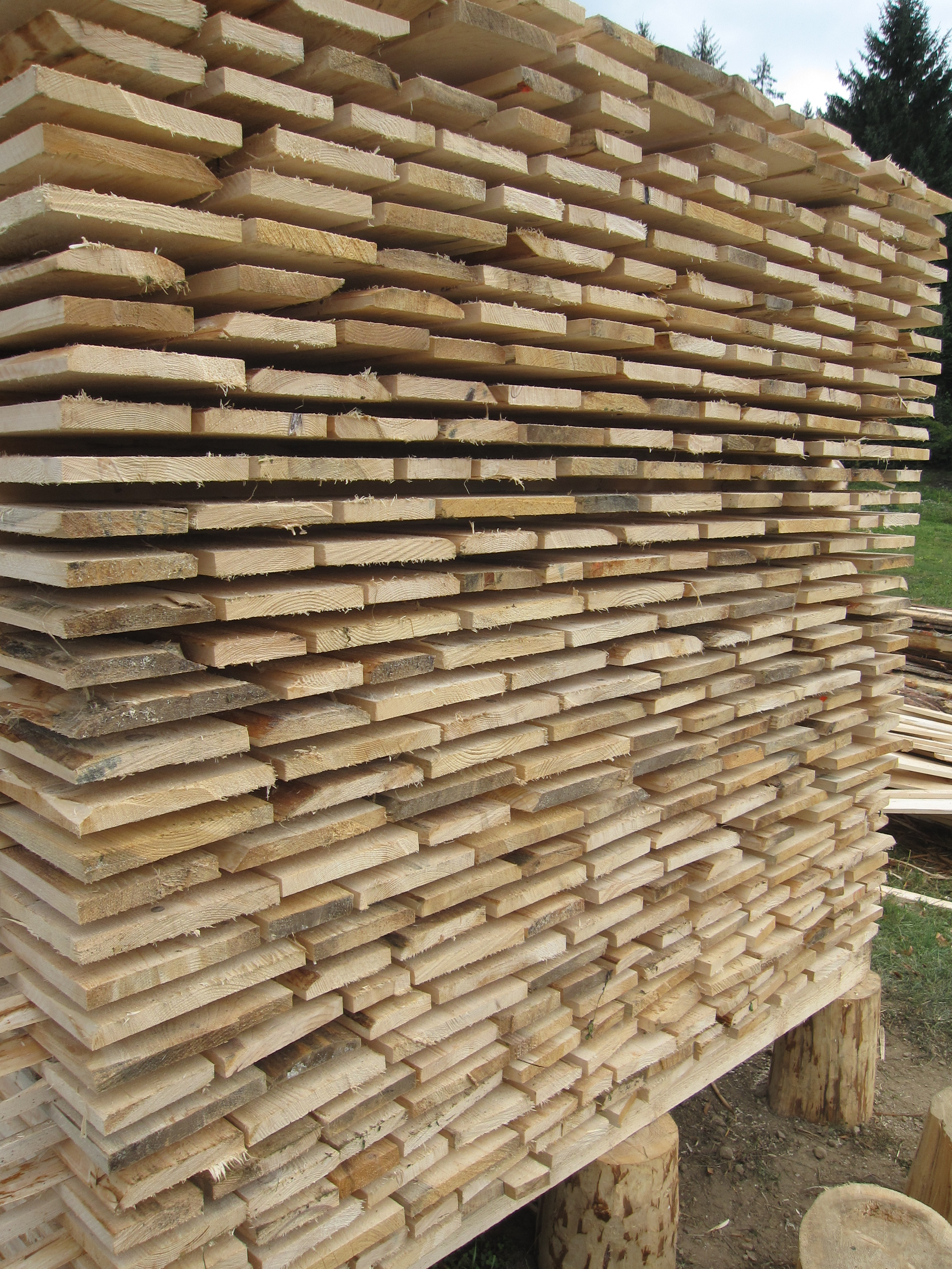 Neat organized wood drying rack